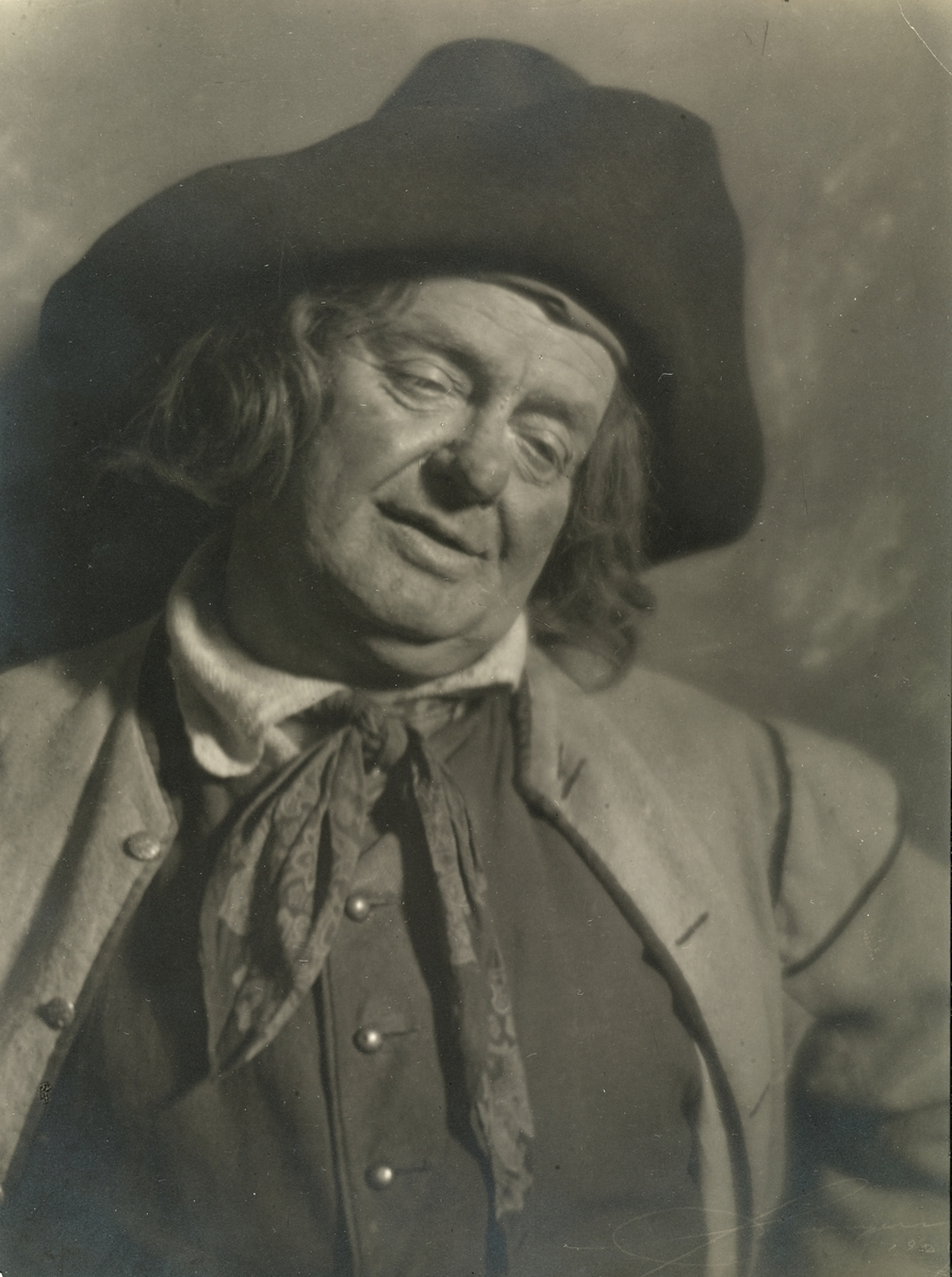 Norwegian actor Hauk Aabel as Jeppe ("Jeppe on the mountain" by Ludvig Holberg, Nationaltheatret, Oslo 1928)